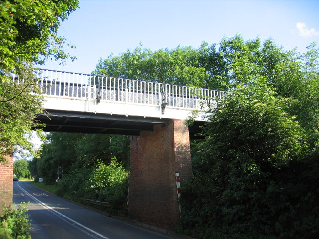 Wootton Wawen Aqueduct. This aqueduct, a smaller version of the iron structure at Edstone, carries the Stratford upon Avon Canal over the busy Birmingham - Stratford Road . The canal is carried in an iron trough with the towpath fixed on the side, effectively as an extension to the bottom of the trough.